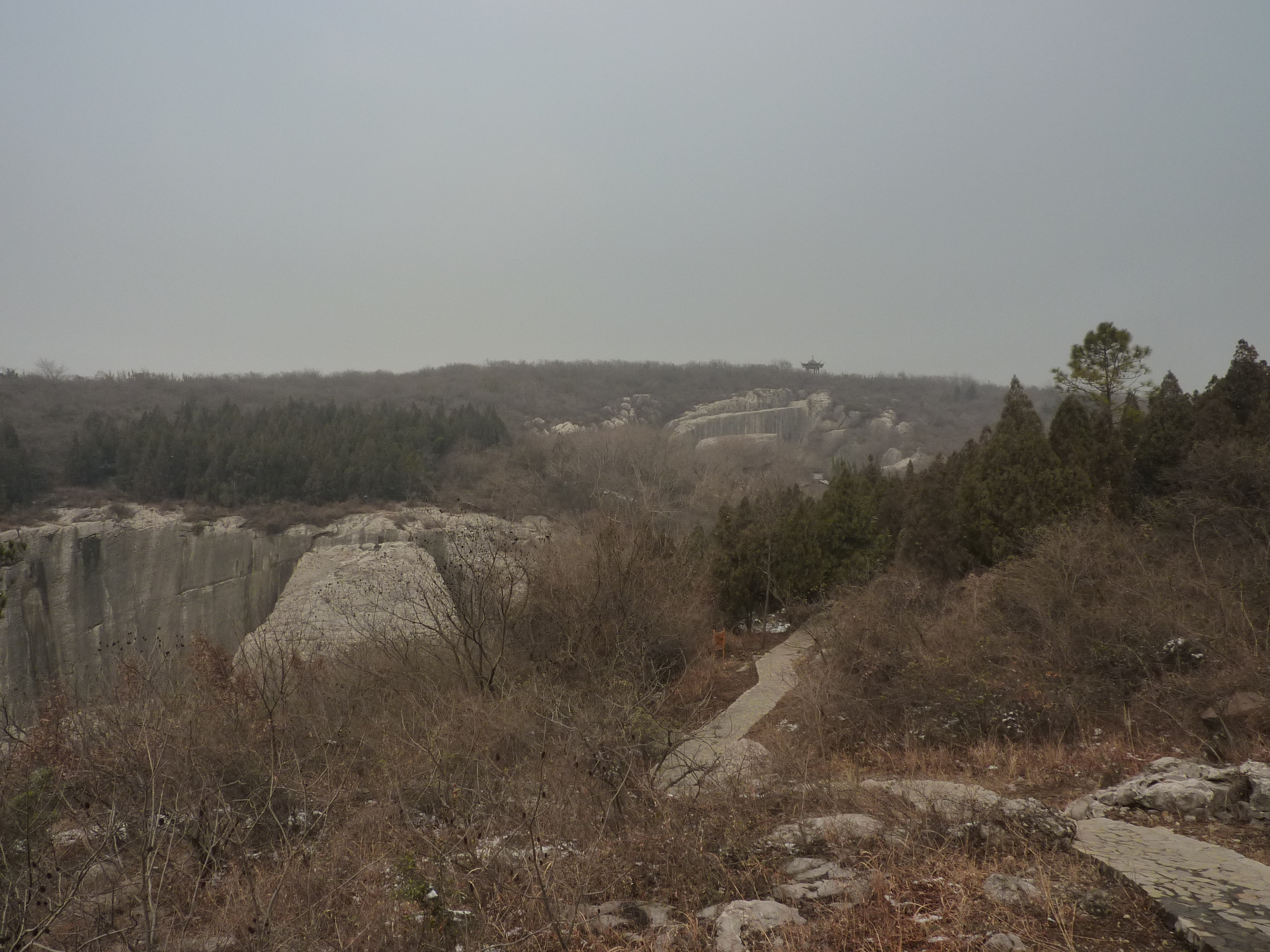 A view of the Yangshan Quarry from the "plateau" south and east of the quarries to pits. Looking north. The top of the Monument Base is seen in the center right. The long Monument Body, and the smallet Monument Head, can be seen near the horizon, just right of center and left of the tower.